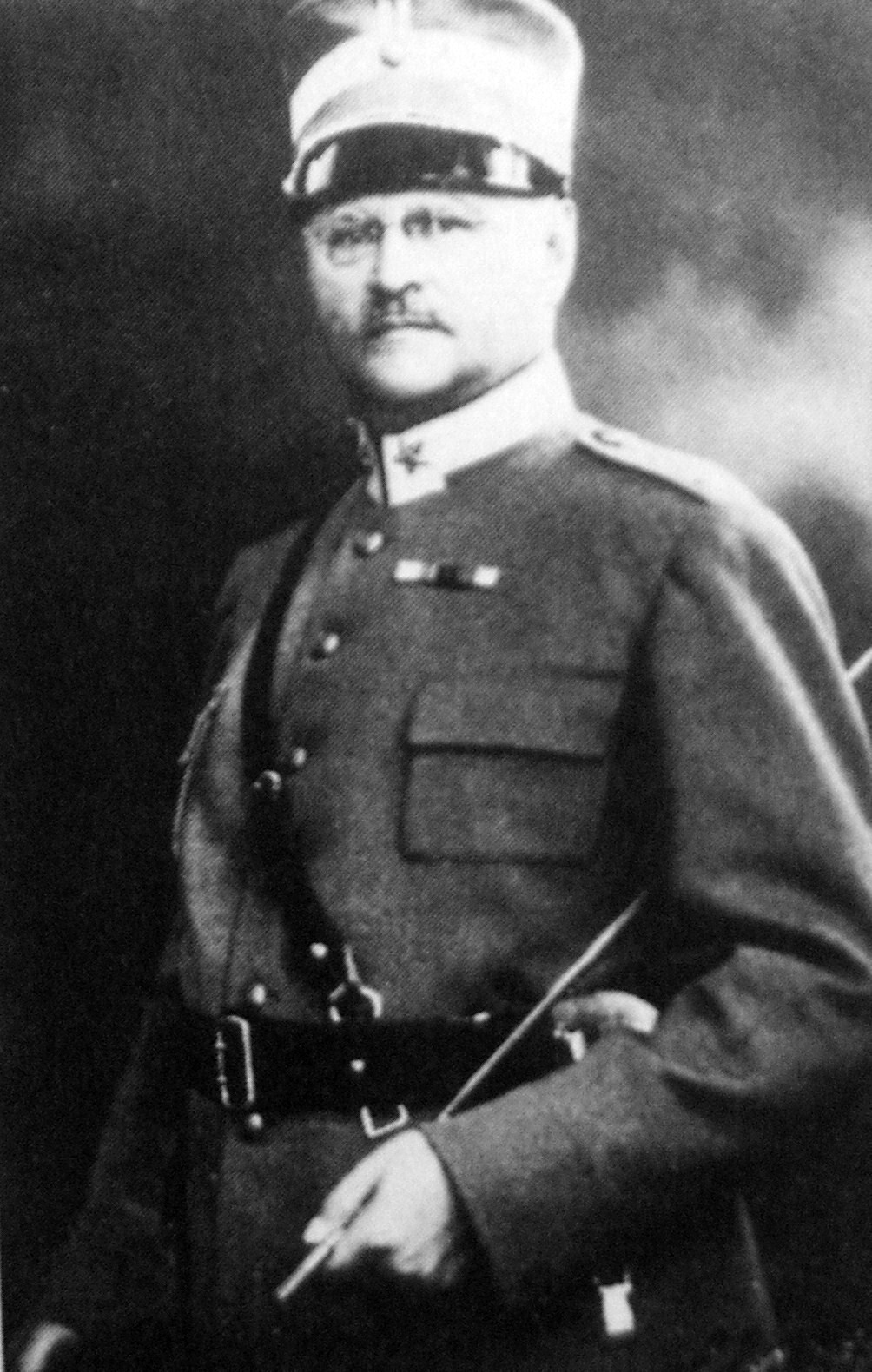 Picture of Bo Boustedt (1868-1939), Swedish officer